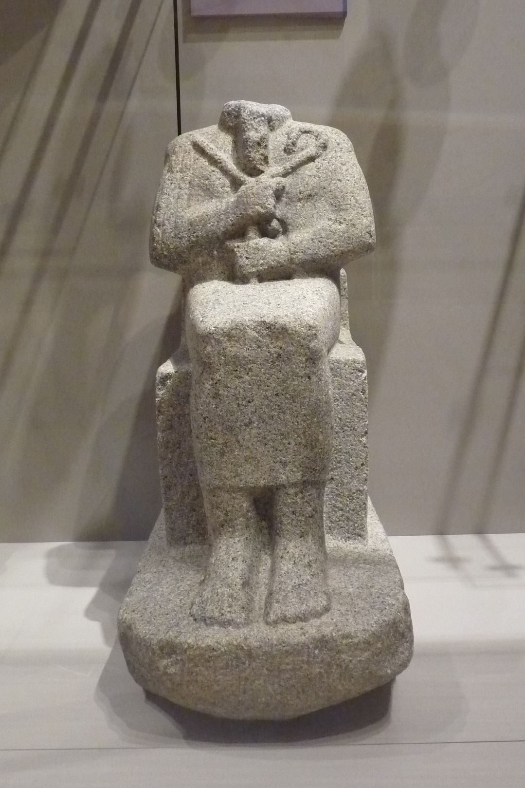 Sitting statue of the Napatan king Aramatleqo (c.568-555 BCE). Granite, from Napata. Museo Egizio, Turin, on loan from the Ägyptisches Museum, Berlin, ÄM 2249.